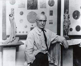 Anthony de Francisci in his studio from Peter A. Juley & Son Collection at the Smithsonian American Art Museum. Click here to see artist Anthony de Francisci featured on Smithsonian American Art Museum website. This website included images of works by the artist preserved in the Smithsonian collection. Smithsonian American Art Museum Public Affairs granted permission in September 2007 to use this photograph of Anthony de Francisci from their collection for an article on the artist on Wikipedia. The picture number at the Smithsonian Institution was J0023003.